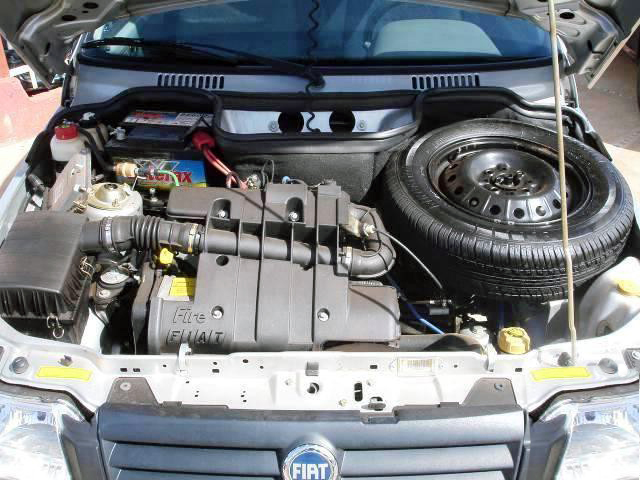 Fiat FIRE engine in a Brazilian-built Fiat Mille - unlike its European counterparts, Brazilian Unos carry the spare tire in the engine compartment